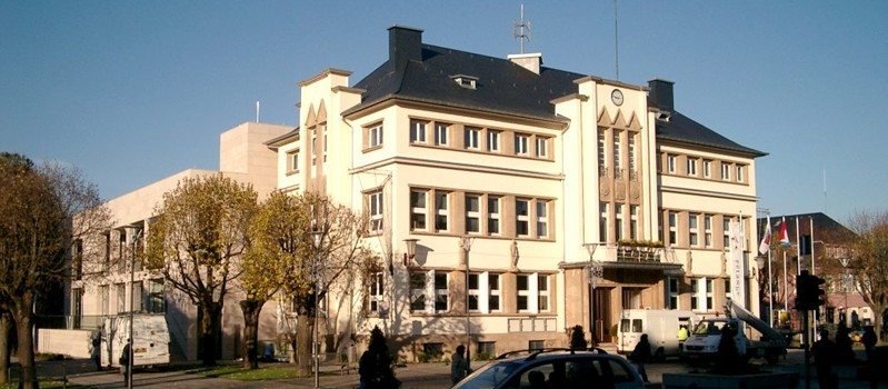 Town hall of the commune of Pétange, in south-western Luxembourg.